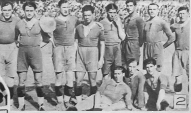 Fiumana (soccer club) - (1928-1929)